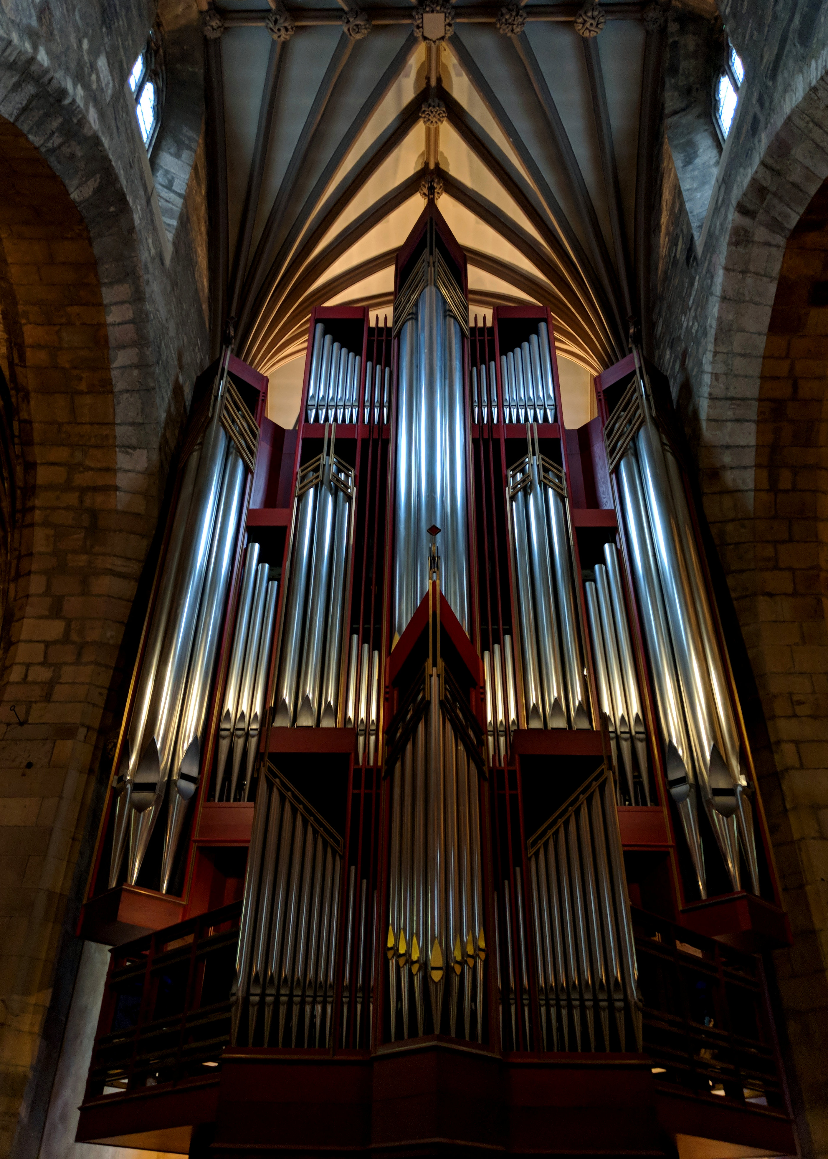 Church Organ at St Giles' Cathedral, High Street, Royal Mile, Edinburgh Wikidata has entry Q1547466 with data related to this item.